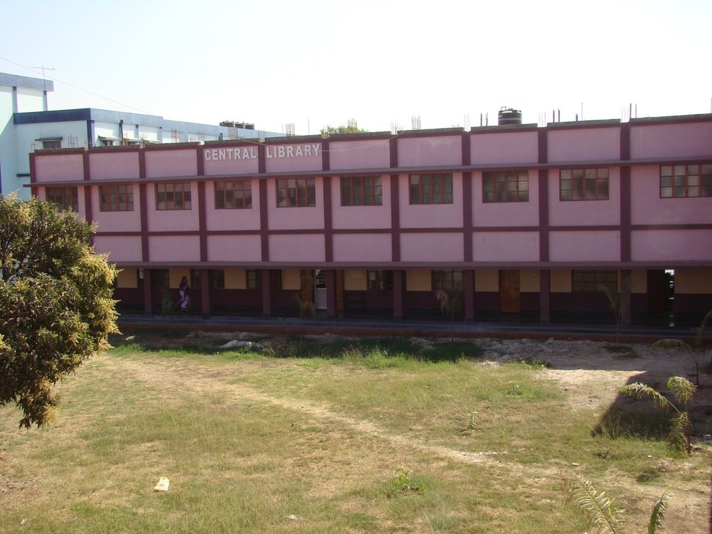 Central library stc.jpg